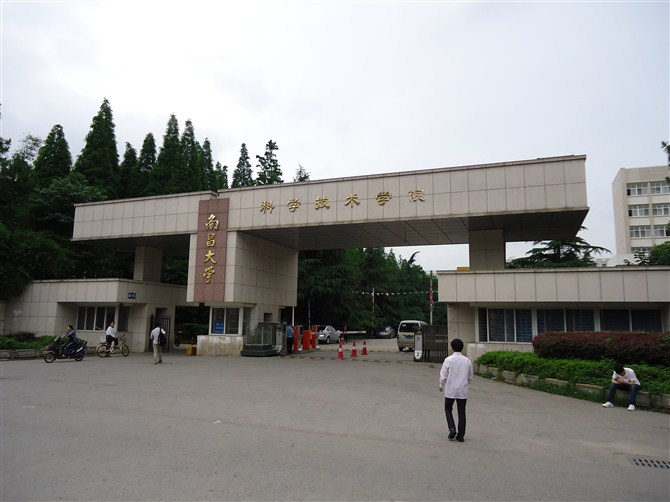 South gate of Nanchang University Institute of Technology